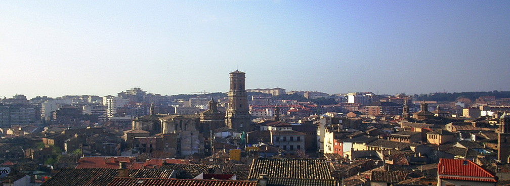 Old town of Tudela in Navarra - Spain